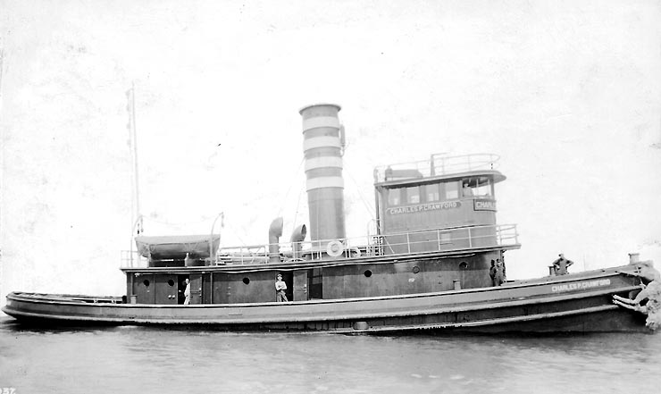 The tug Charles P. Crawford, before her United States Navy service as minesweeper and tug .